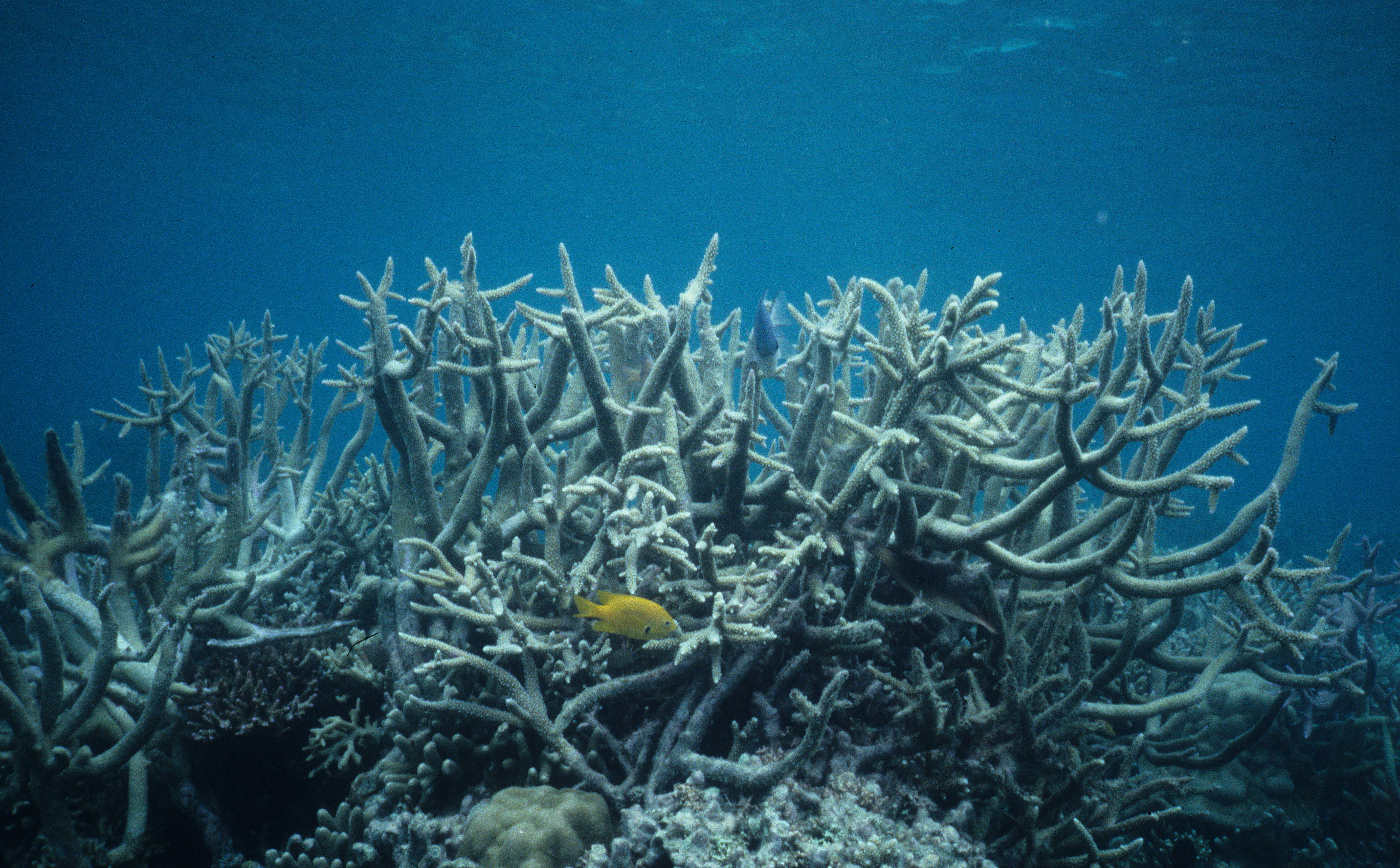 Delicate branching corals in the lagoon at Dravuni Island, Fiji.